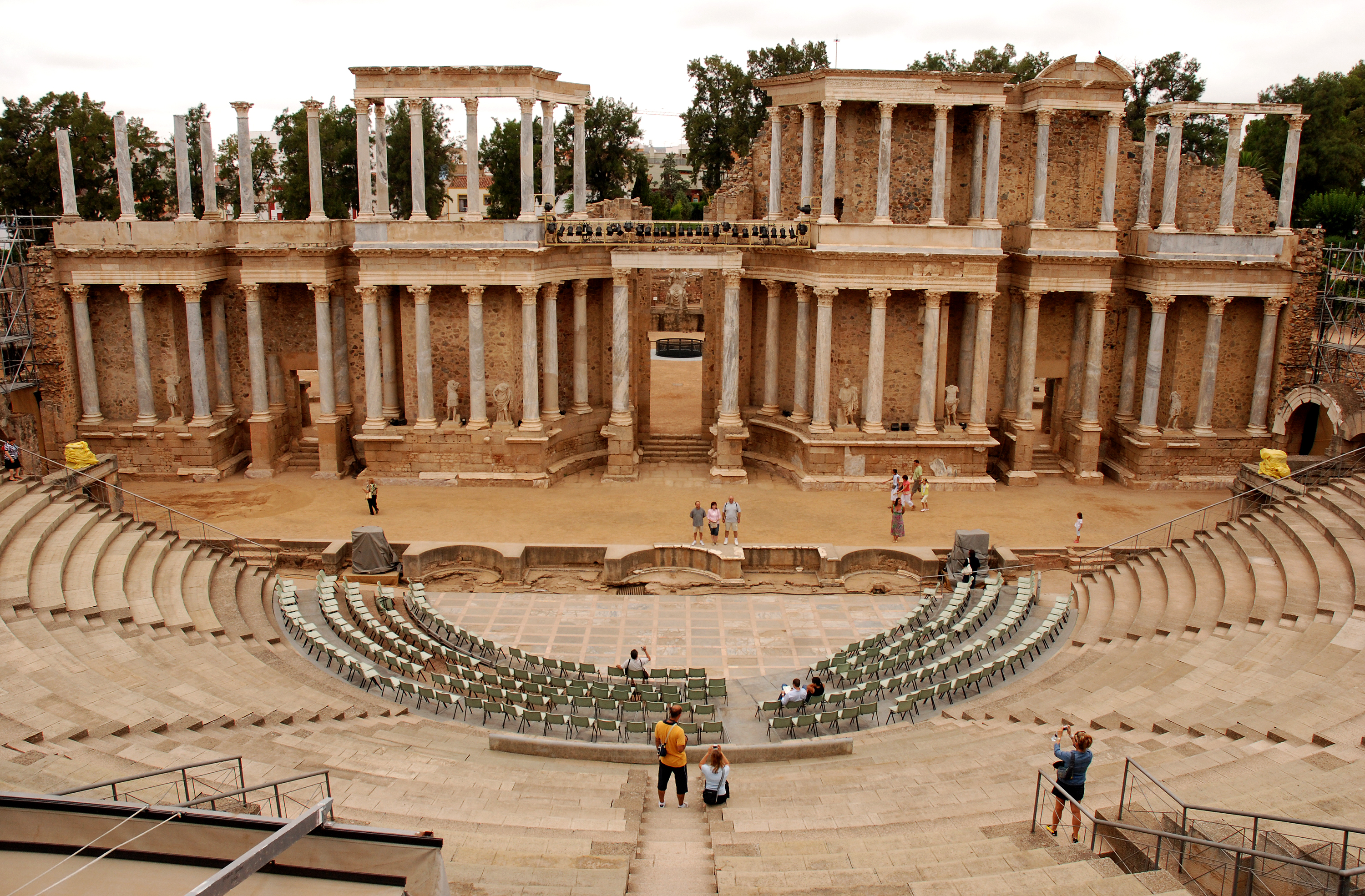 Ancient Roman theater in Mérida (Badajoz, Extremadura, Spain).